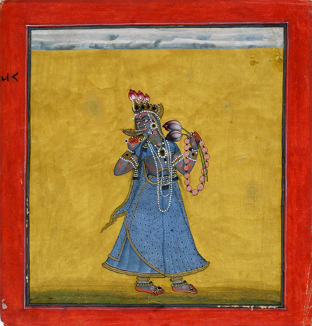 Bahsoli painting of Goddess Bhadrakali, Gouache on paper